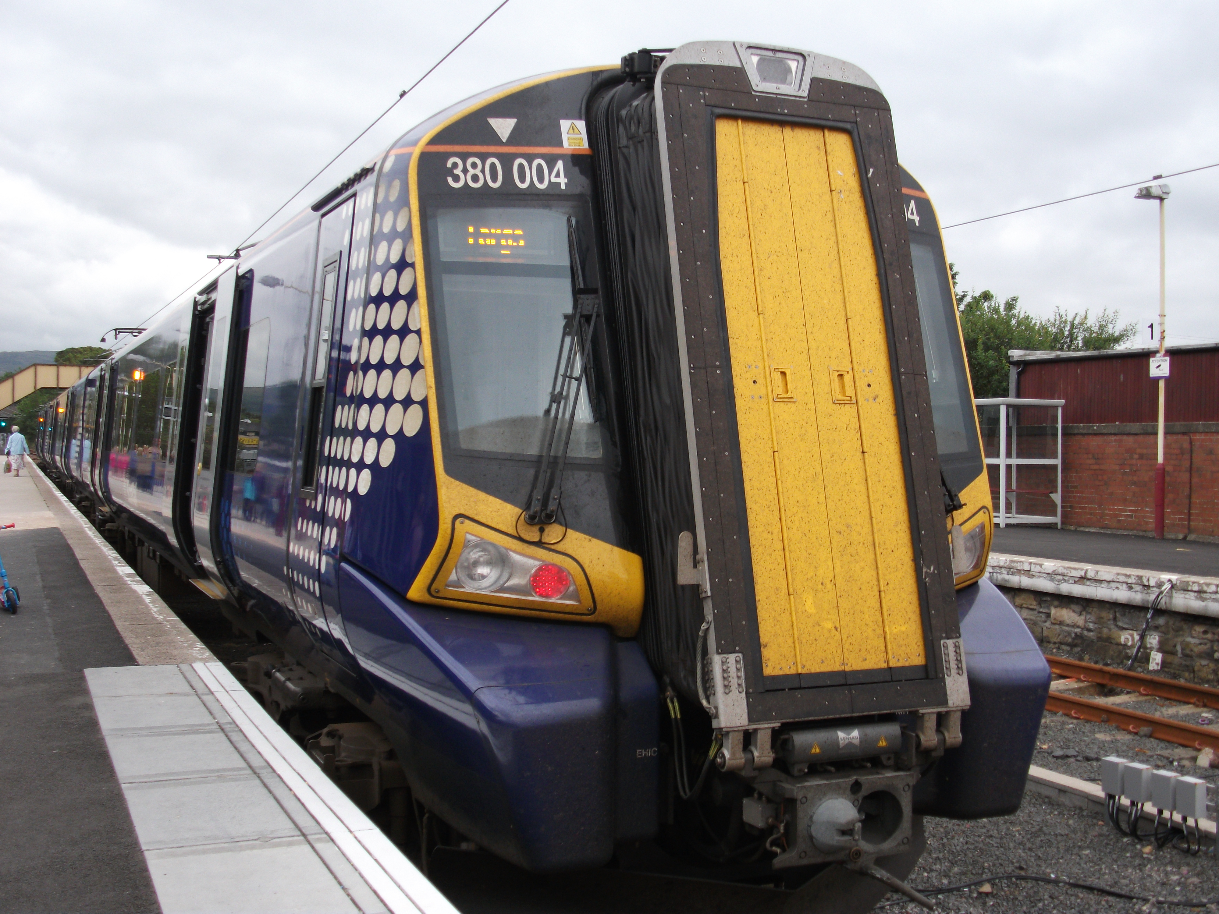 380004 after arrival from Glasgow Central at Largs, August 2011